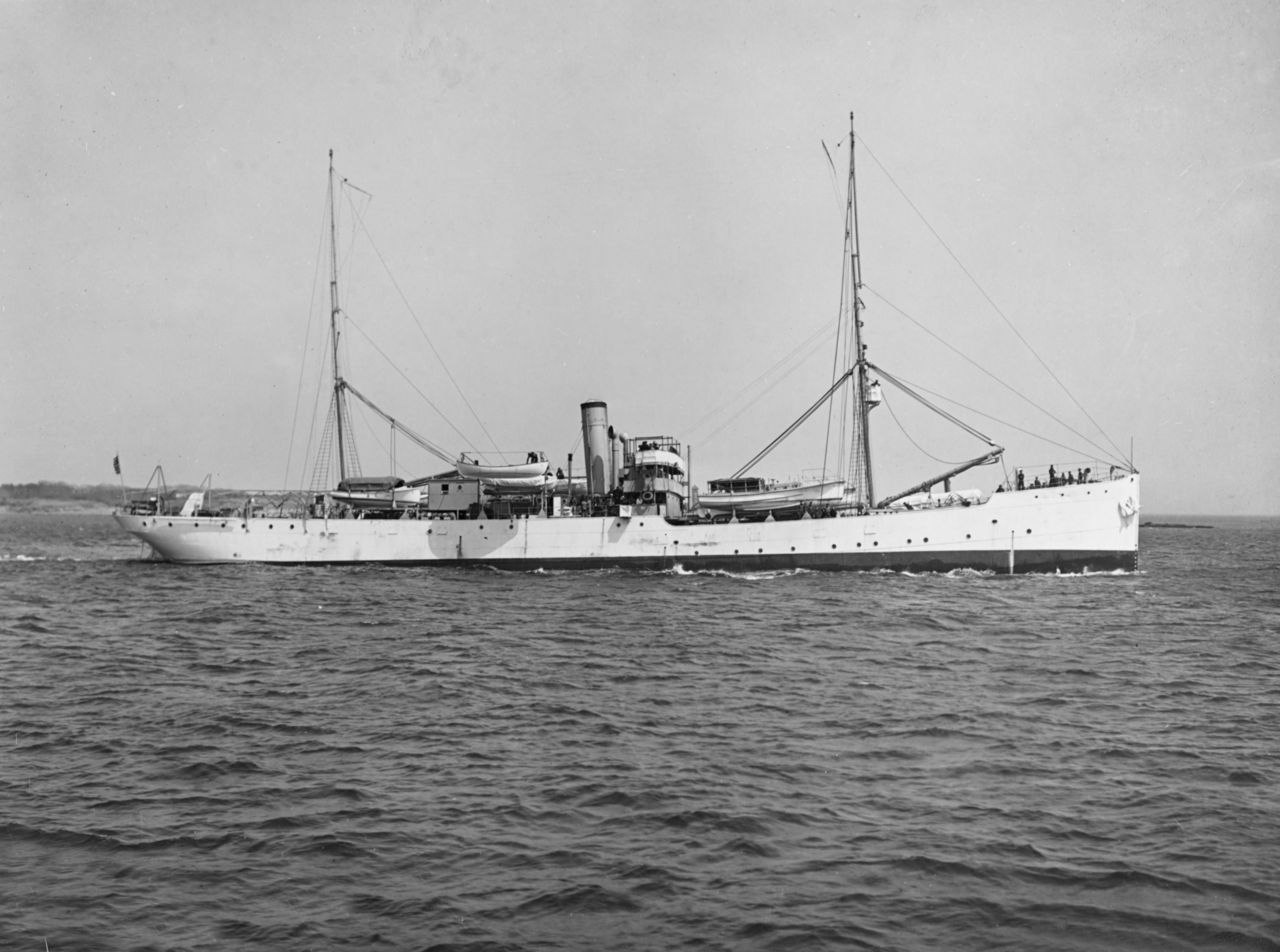 The U.S. Navy survey ship USS Leonidas underway on 22 April 1914. Leonidas had been recommissioned on 1 April 1914, and sailed from the Portsmouth Navy Yard in Kittery, Maine (USA), via Boston, Massachusetts, to survey the coast of Panama. From 1918–1922, Leonidas served as a destroyer tender, later designated "AD-7".